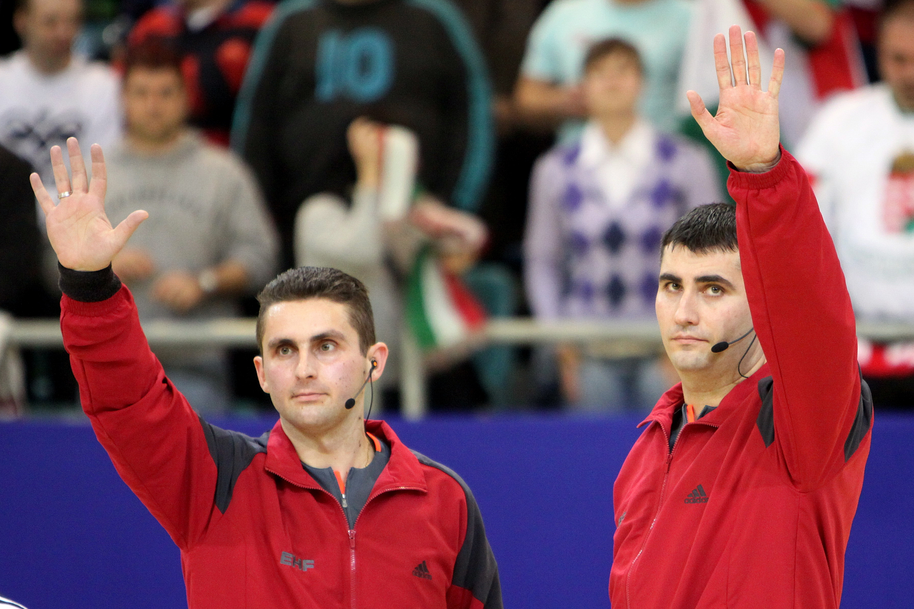 Nenad Nikolić (left) and Dušan Stojković (Serbia), Referees of the 2010 European Men's Handball Championship